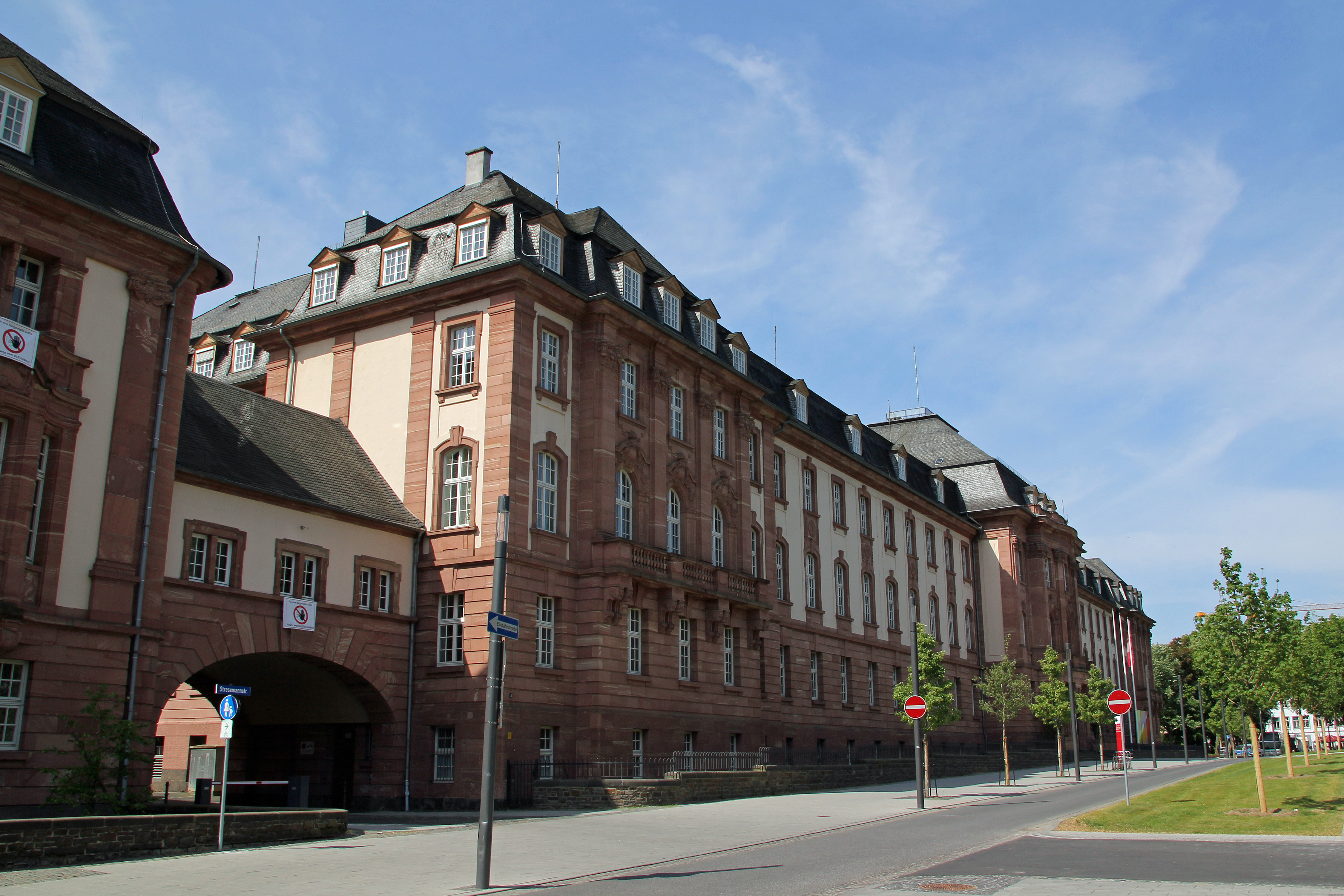 Rhine park in Koblenz